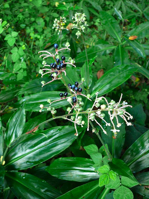 fruits ripely (purple) and unripely (green).